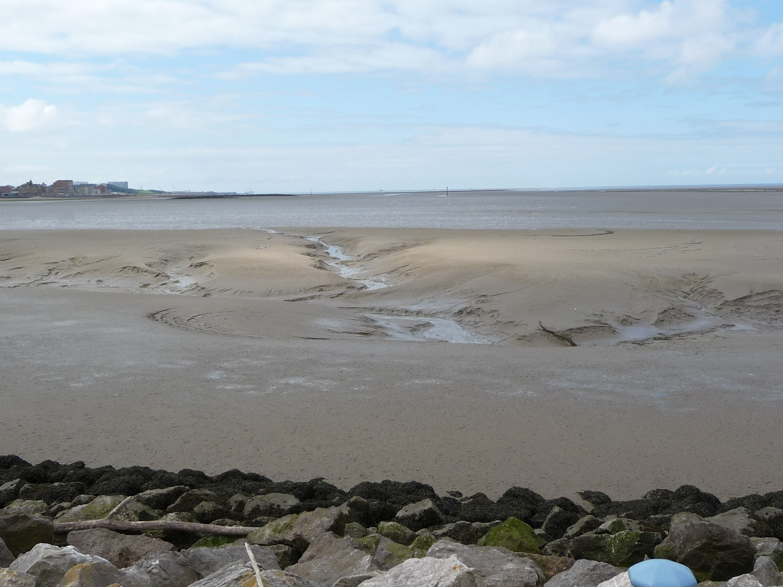 Beach of Morecambe